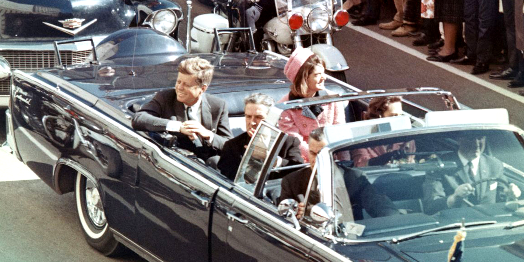 Picture of the JFK´s limousine in Dallas, TX. (Main Street) (cut-off version)